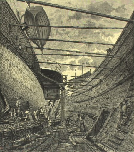 The Old Dock at Christianshavn, inaugurated 1739, closed down 1919. From Illustreret Tidende, June 11, 1882.